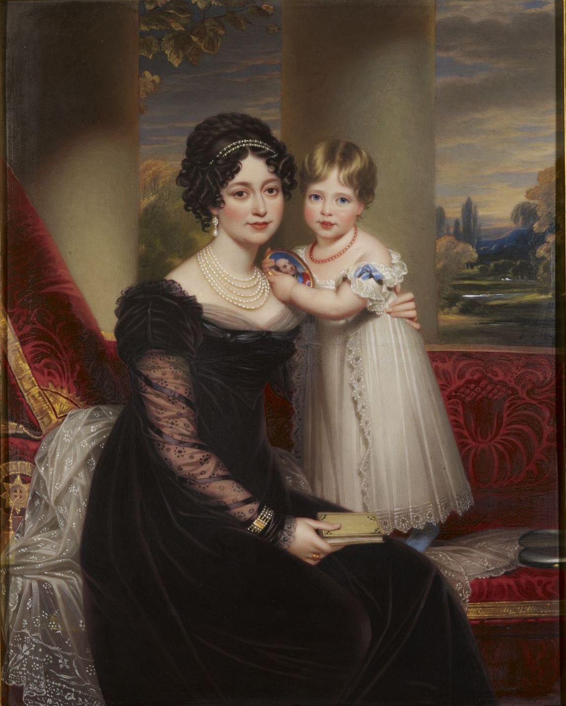 The duchess of Kent with her daughter, the future queen Victoria